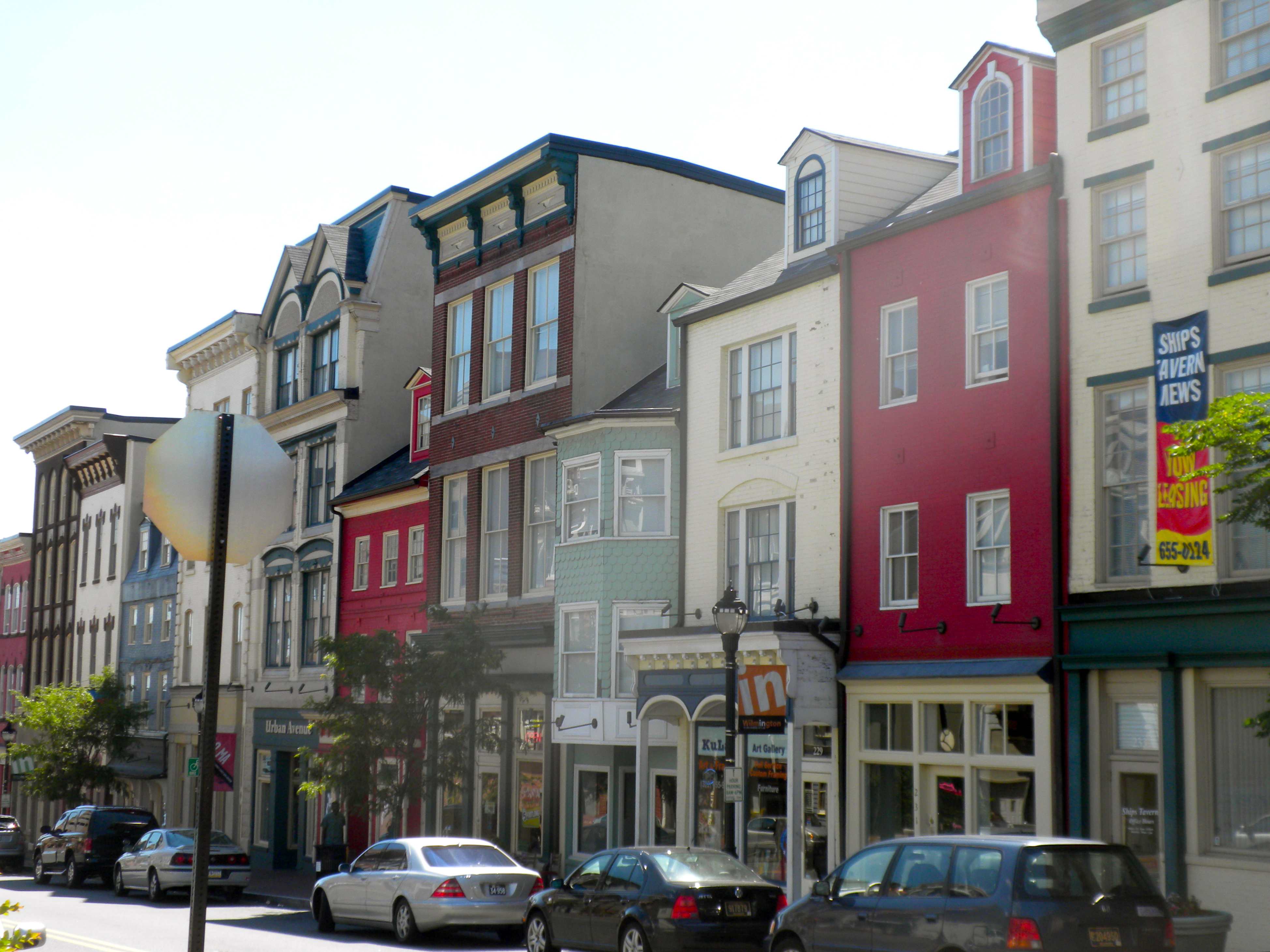 Northwest side of the 200 N. block of Market Street part of the Lower Market Street Historic District in Wilmington, Delaware. Has been on the NRHP since May 15, 1980.